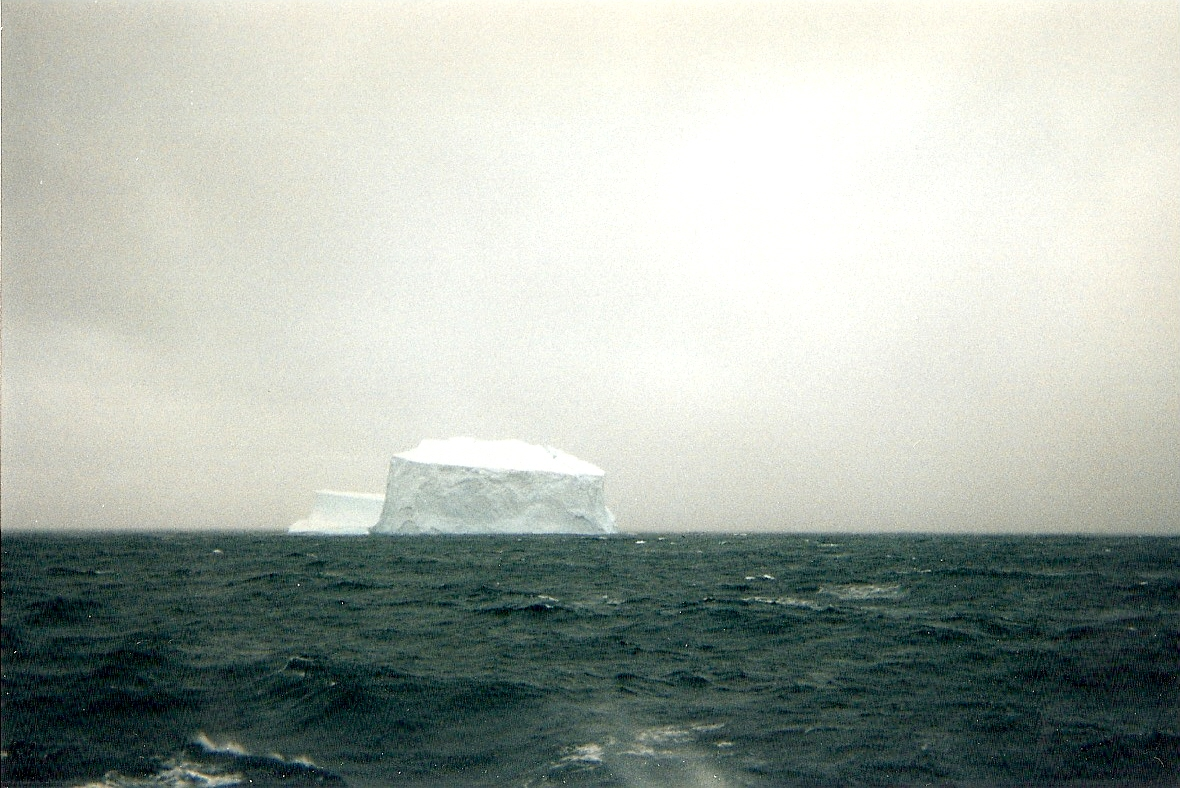 Tabular iceberg, with an estimated height of one-hundred meters, in the Scotia Sea.